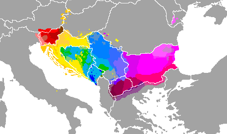 Dialects of the South Slavic languages Slovene Pannonian Slovene Styrian Slovene Carinthian Slovene Carniolan Slovene Rovte Slovene Litoral Slovene Croatian Chakavian Croatian Kajkavian Crotian Shtokavian Croatian Bosnian Bosniak Bosnian Serbian Shtokavian Serbian Šumadija–Vojvodina dialect Kosovo-Resava dialect Montenegrin Montenegrin Transitional dialect Torlakian Macedonian Northern Macedonian Western Macedonian Central Macedonian Southern Macedonian Eastern Macedonian Bulgarian Western Bulgarian Rup Bulgarian Balkan Bulgarian Moesian Bulgarian